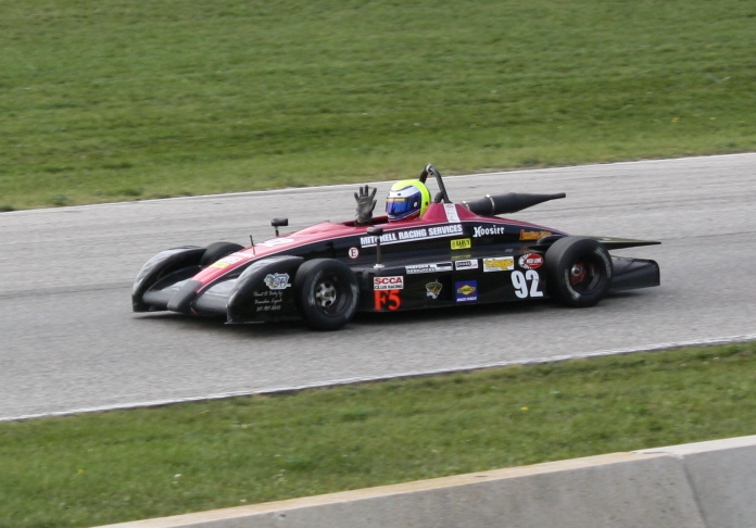 The F5 class #92 celebrating his win at the 2009 Sports Car Club of American National Runoffs.